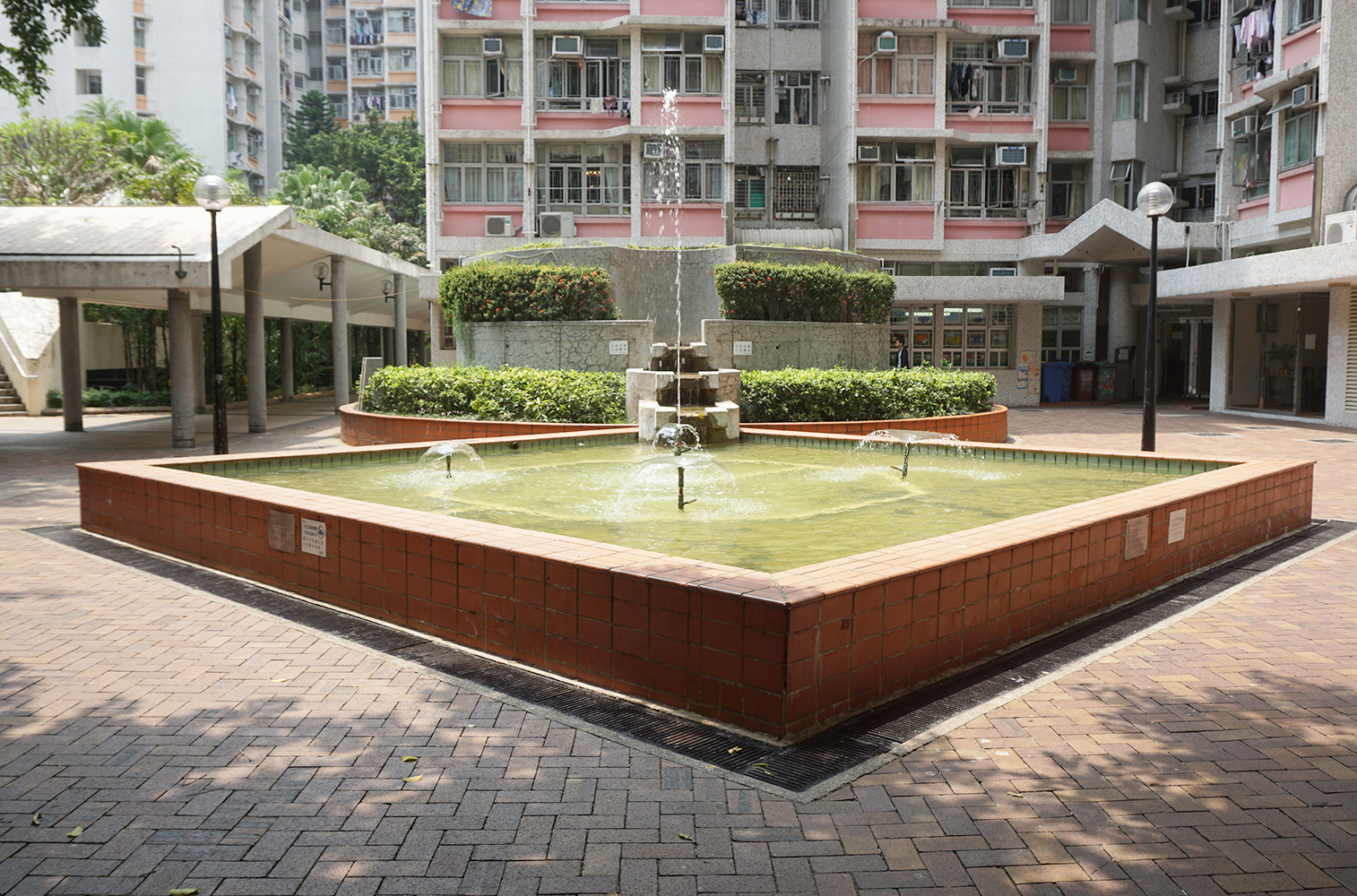 Yee Ching Court in Sham Shui Po, Hong Kong.